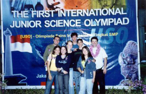 Equipe brasileira da IJSO 2004.